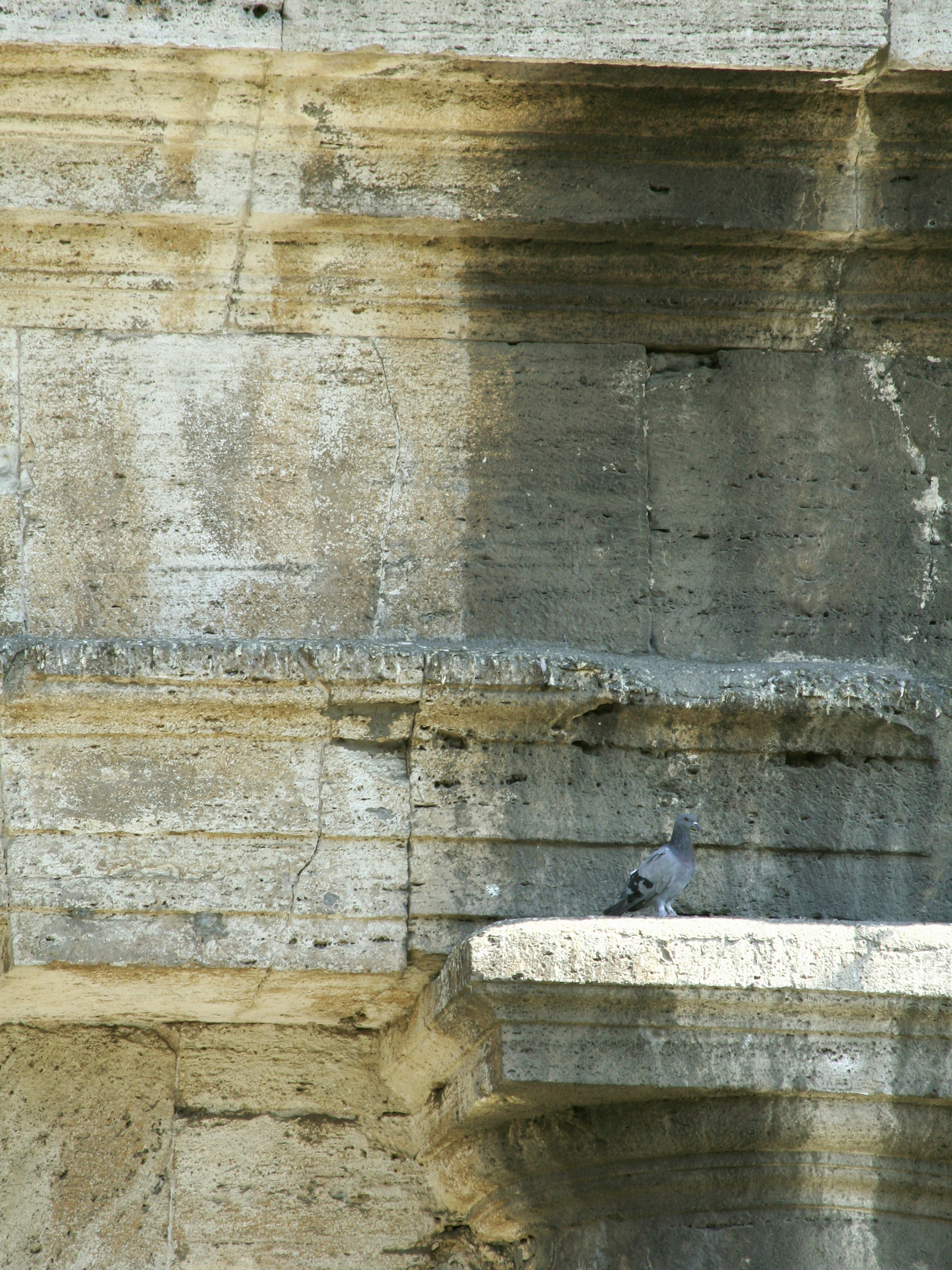 Section of the outer wall of the Colloseum, showing automobile exhaust damage